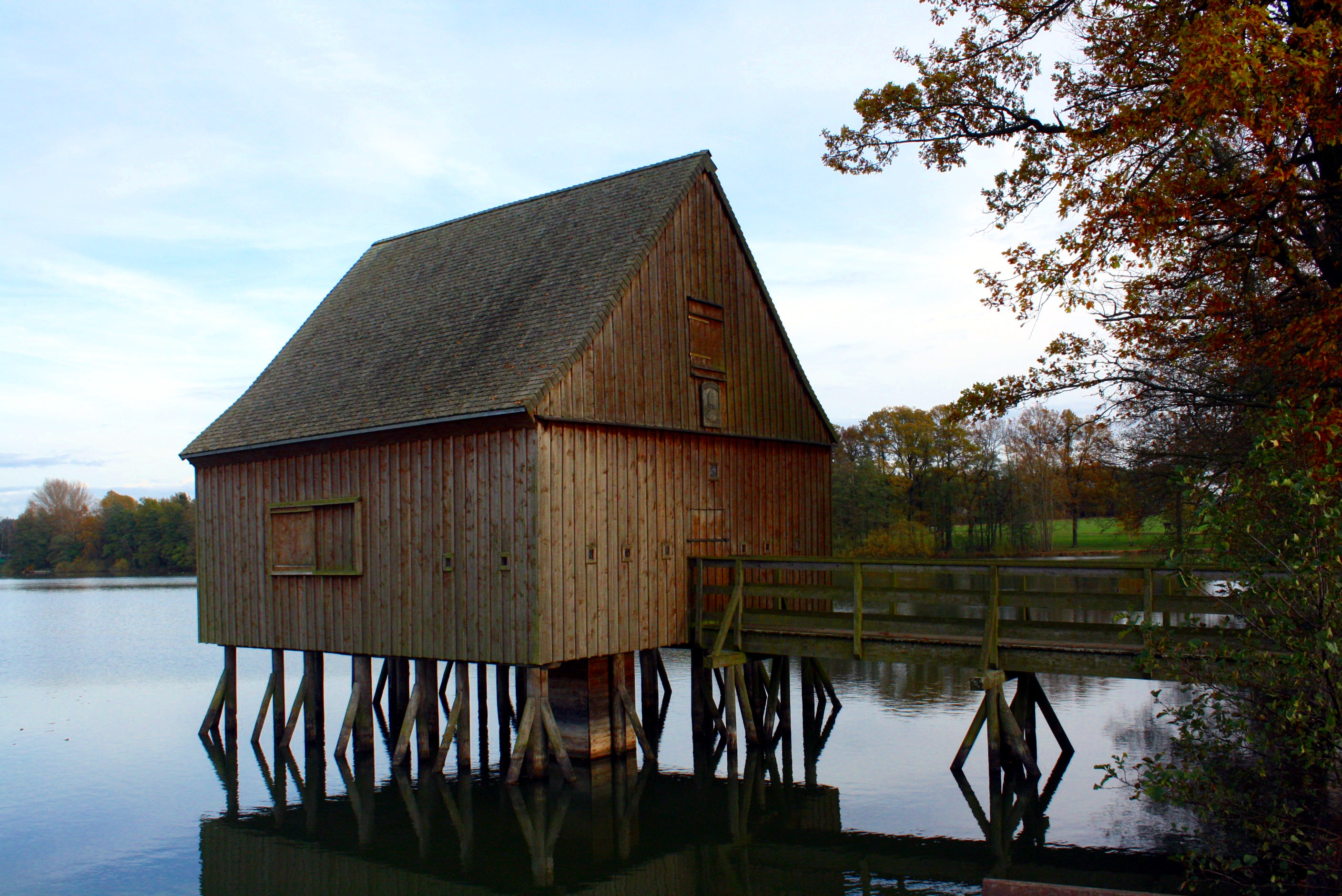 Lake dwelling in Plothen near Schleiz/Thuringia